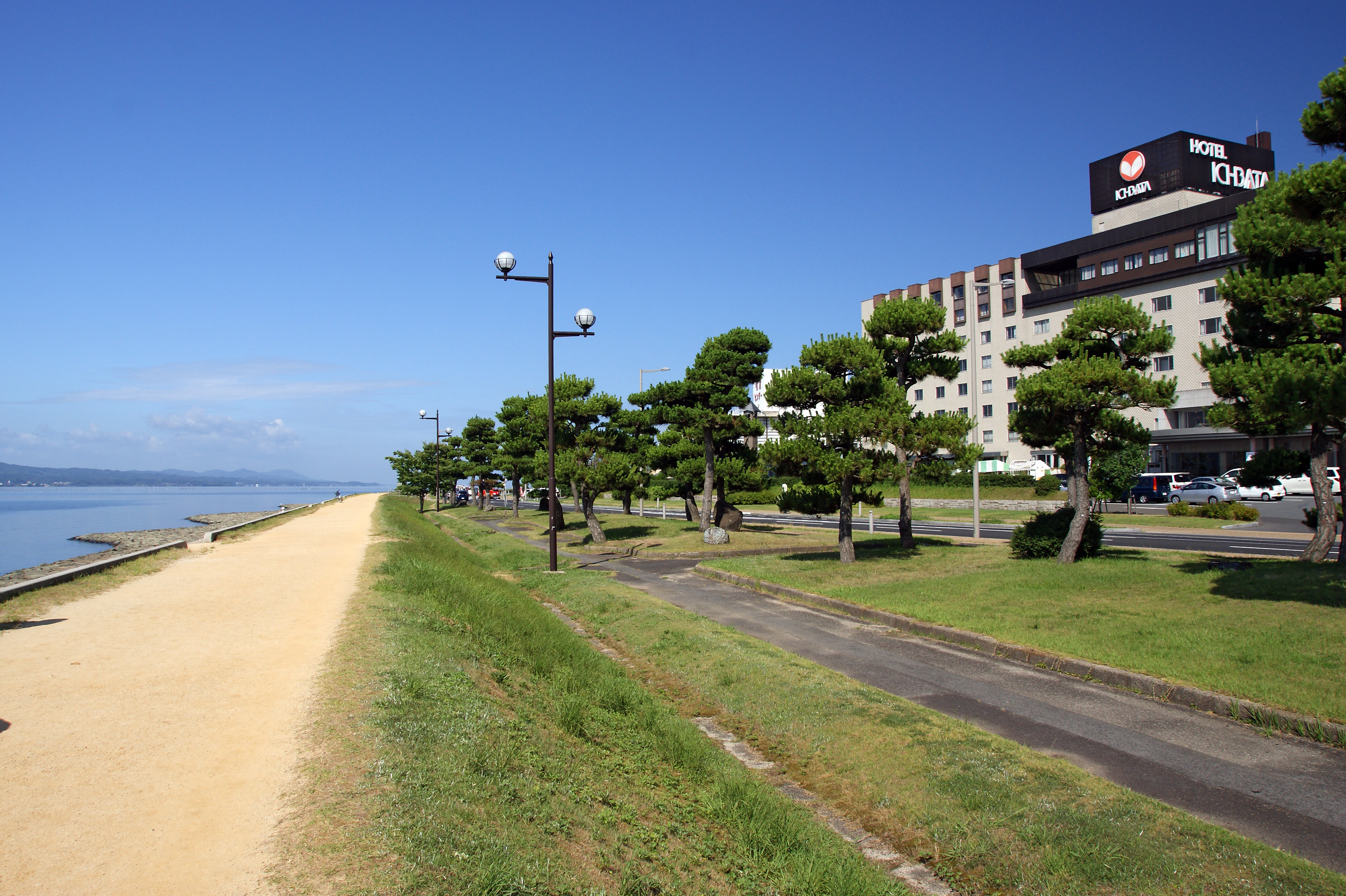 Matsue-shinjiko Onsen in Matsue, Shimane prefecture, Japan